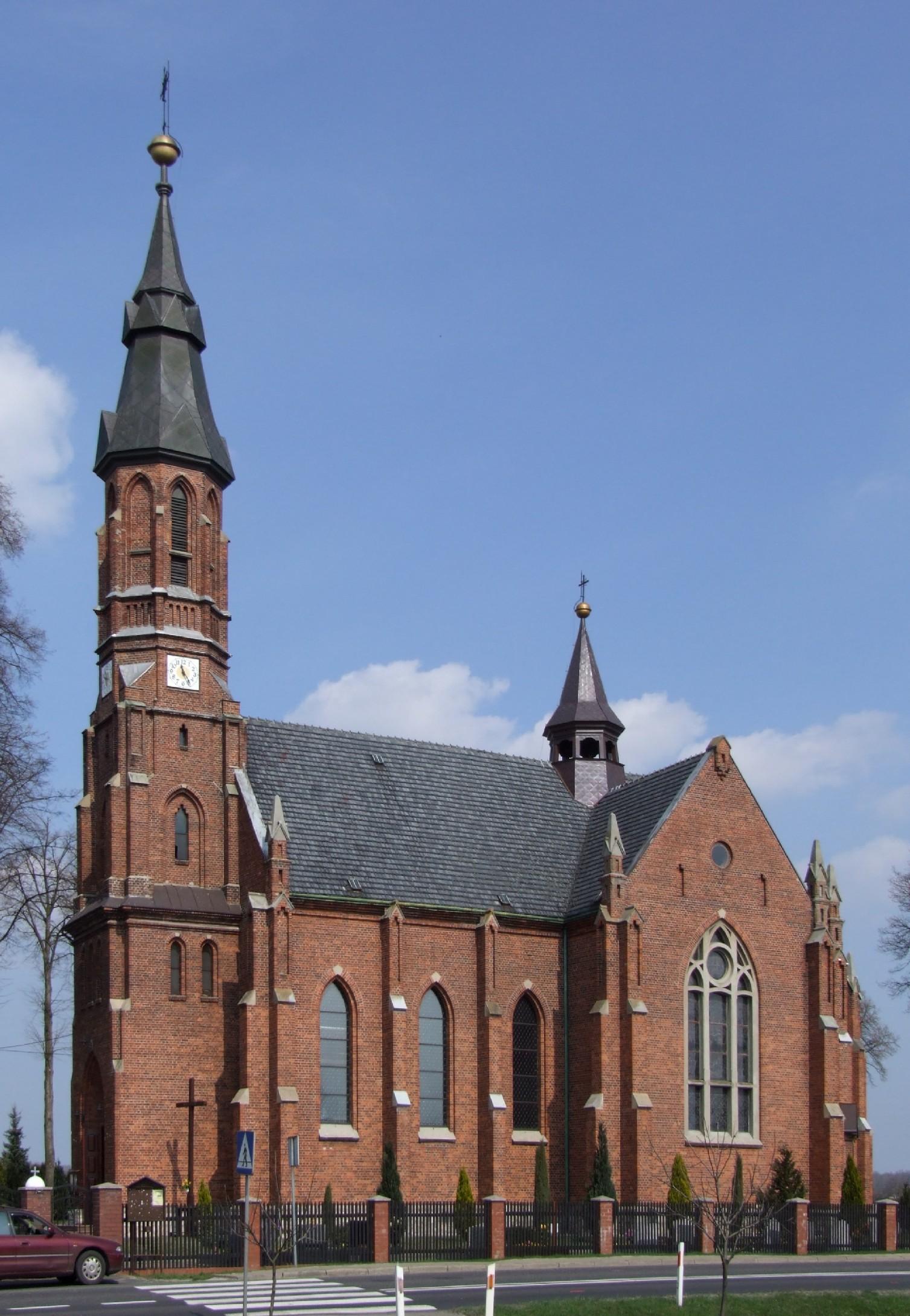 Church in Chudoba (Kudoba), Opole Voivodeship, Upper Silesia in Poland